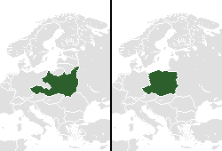 Map of a combined Poland/Czechoslovakia. On the left is pre-WWII, and the right is post-WWII